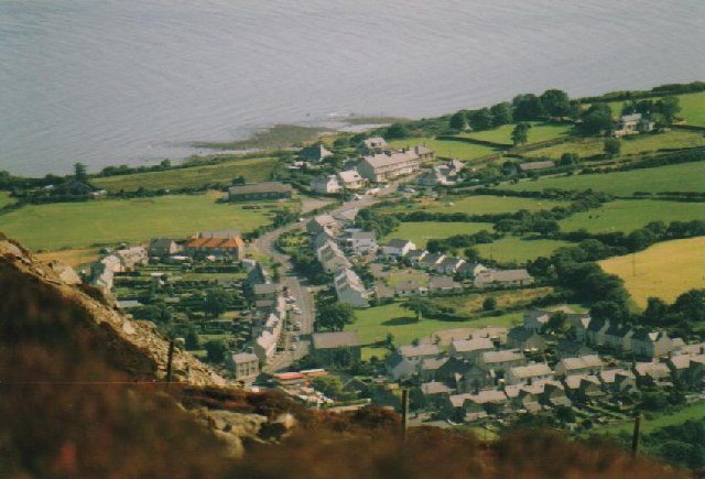 Trefor.